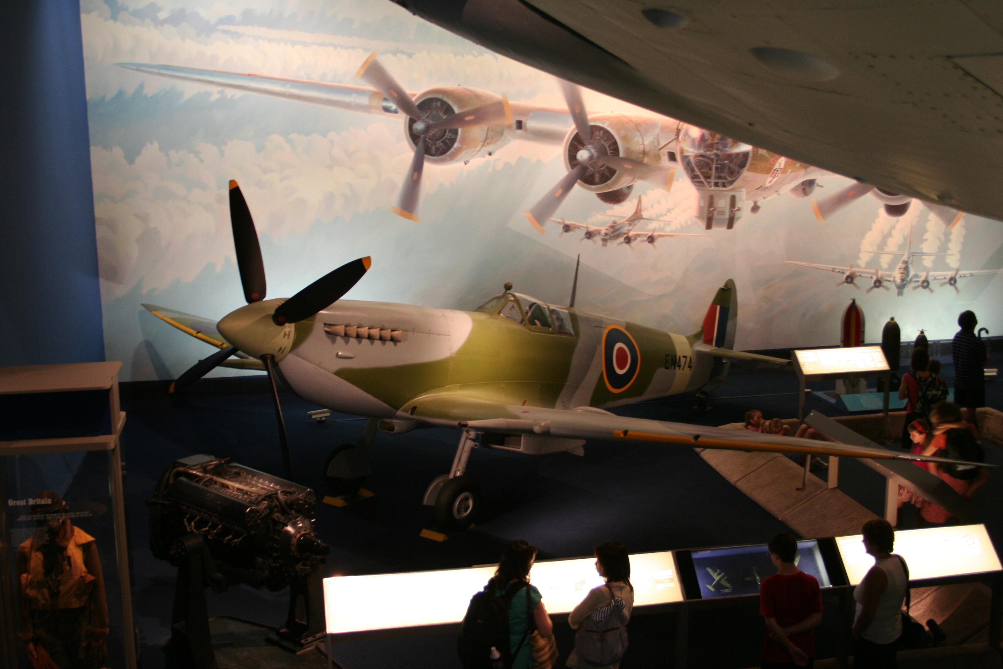 On display in Washington, D.C.